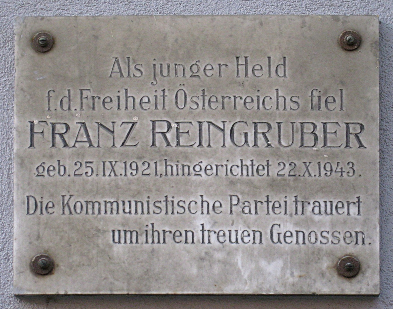 Plaque for Franz Reingruber at Randhartingergasse 14, Favoriten, Vienna.